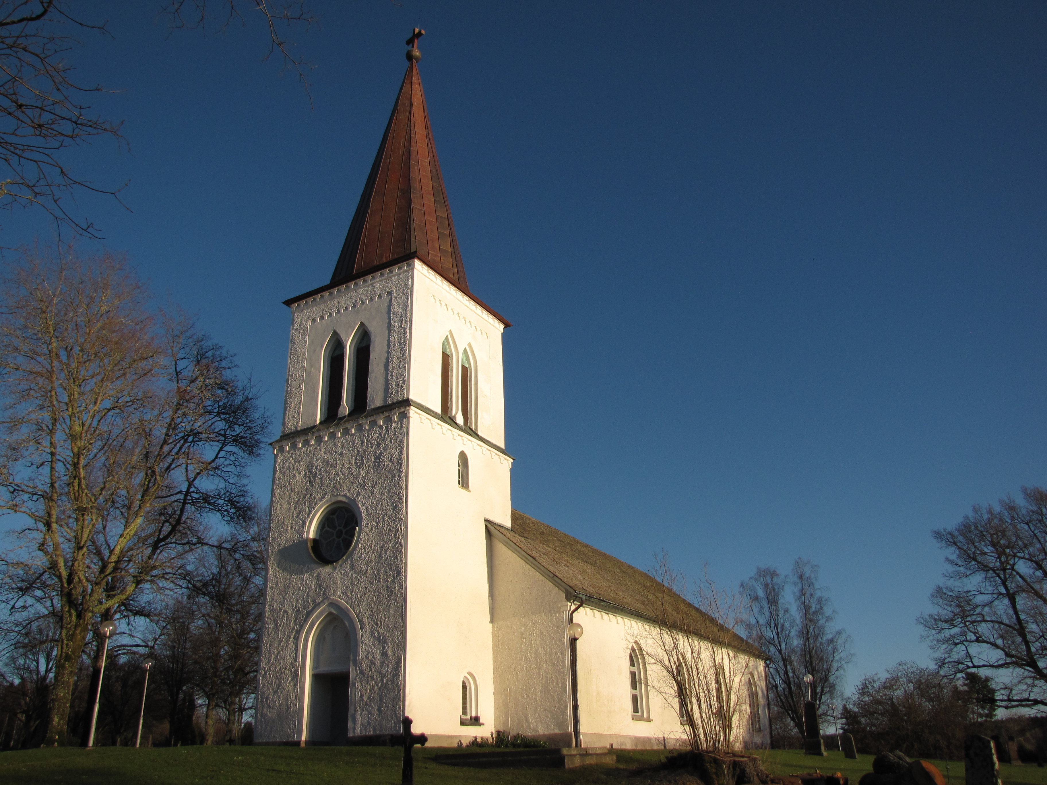 Ärtemark Church in Sweden